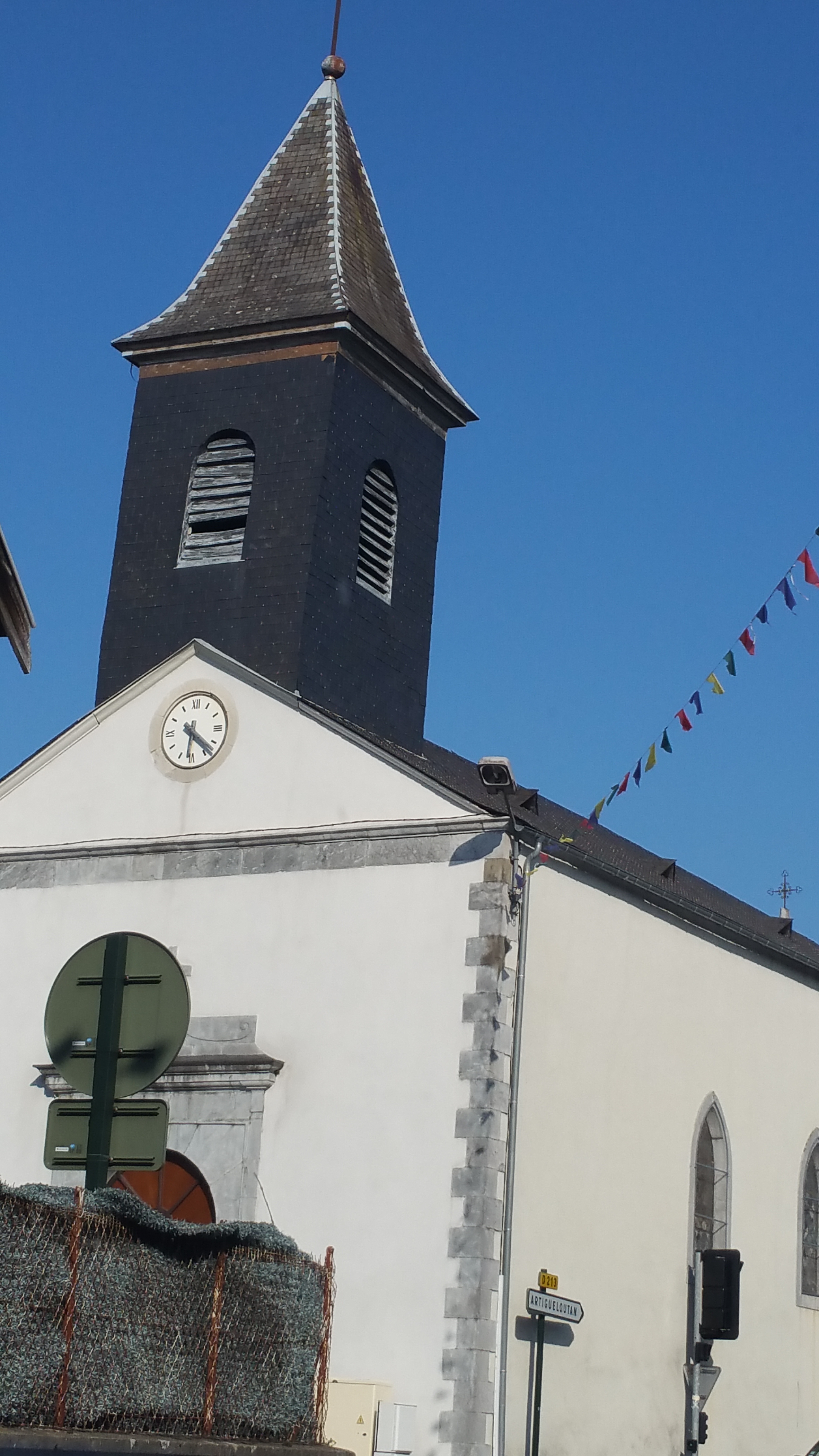 Church of Ousse in south ouest of France